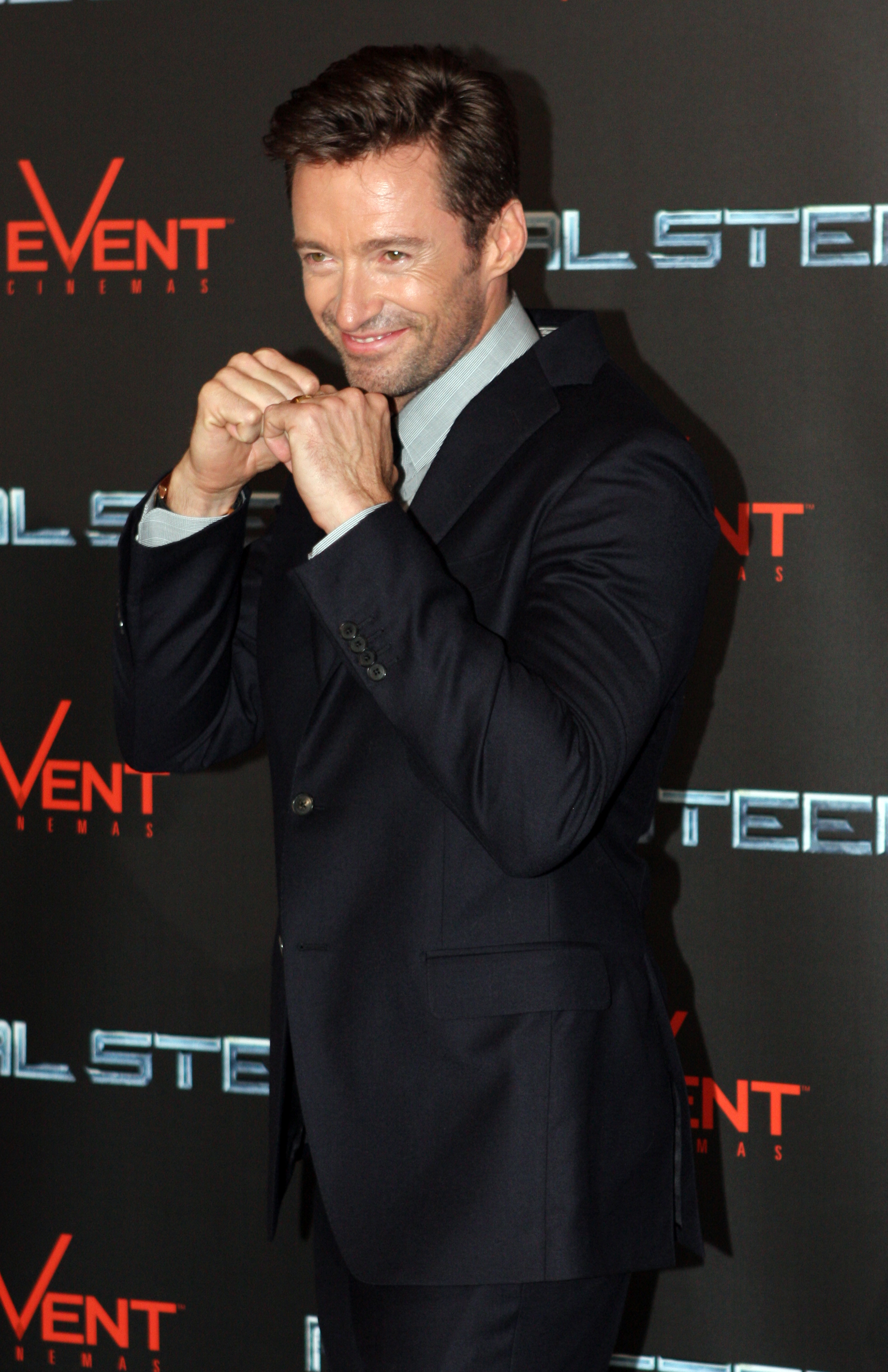 Hugh Jackman at the Sydney premiere of Real Steel in September 2011.